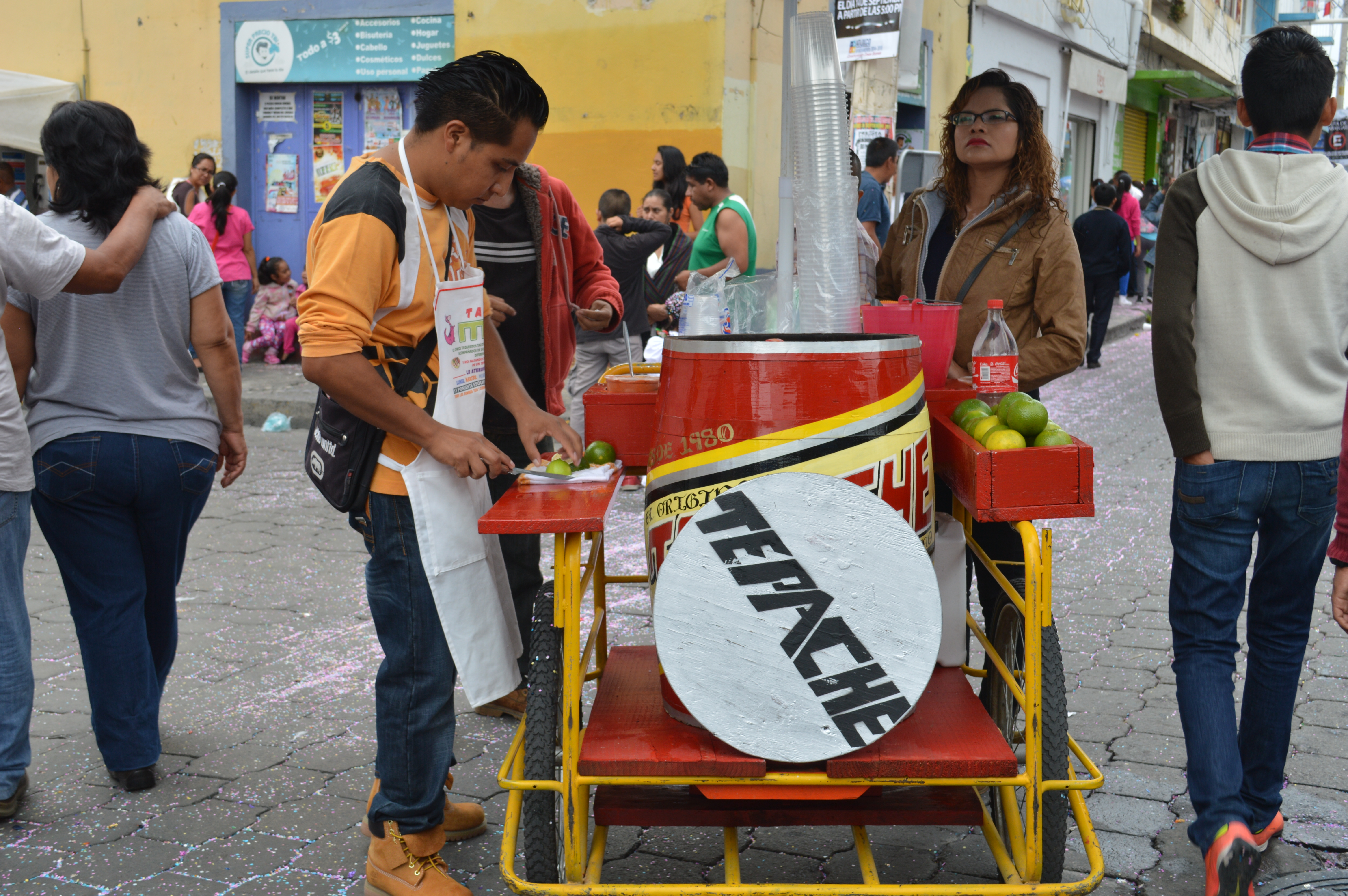 Tepache vendor in Atlixco, Puebla, Mexico